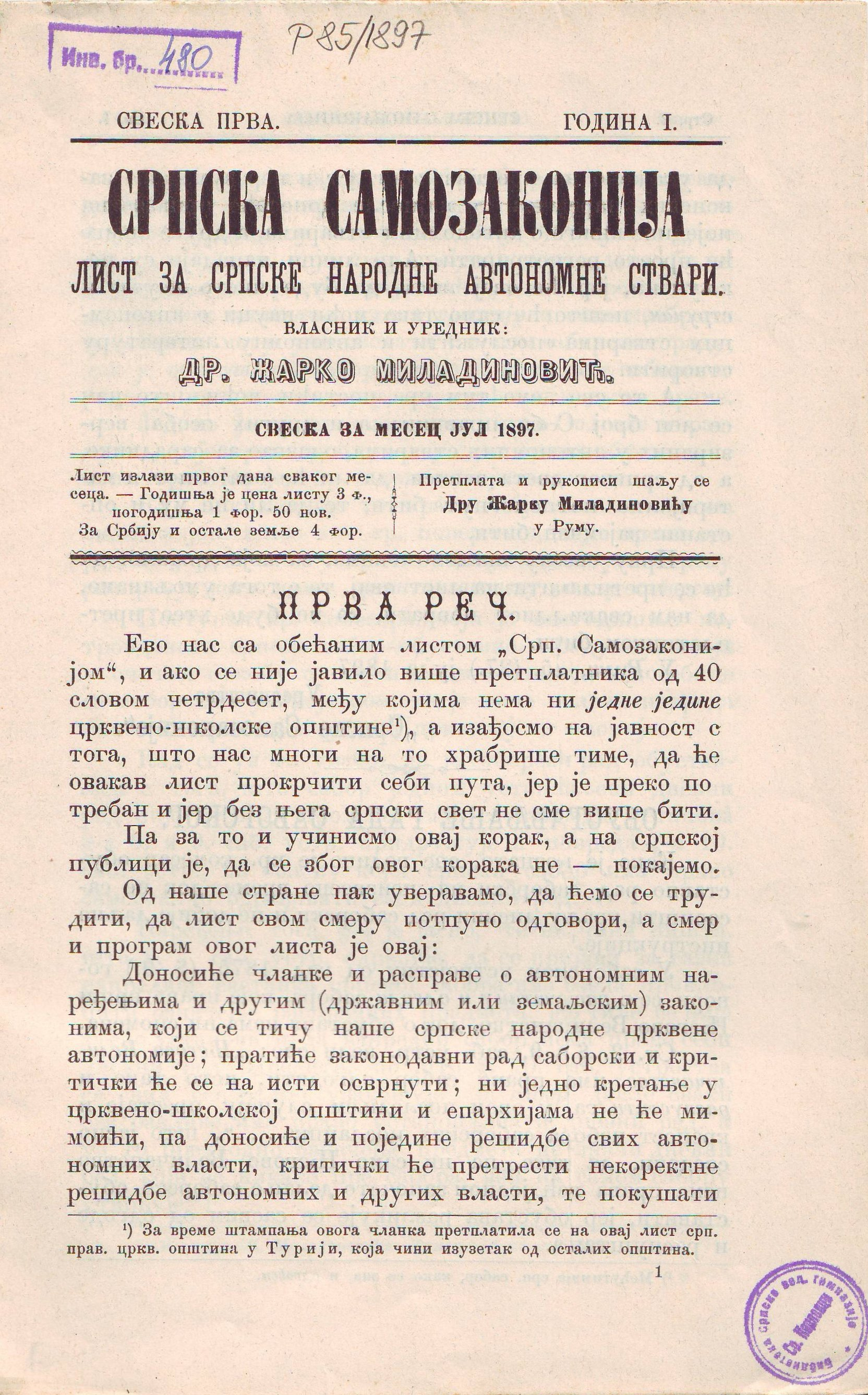 Front page of the first volume of newspaper Srpska samozakonija for July 1897. Srpski (latinica): Naslovna strana prve sveske lista Srpska samozakonija za jul 1897.